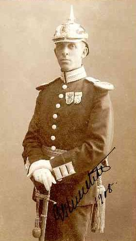 Glimstedt, Peter (Per) Gustaf F. 1871. D. 1918. Major. Överste i persiska gendarmeriet. I Kongostatens tjänst 1894-98. Instruktör vid persiska gendarmeriet 1911-14. Deltog i finska frihetskriget 1918. Andra livgardet. Göta livgarde. source